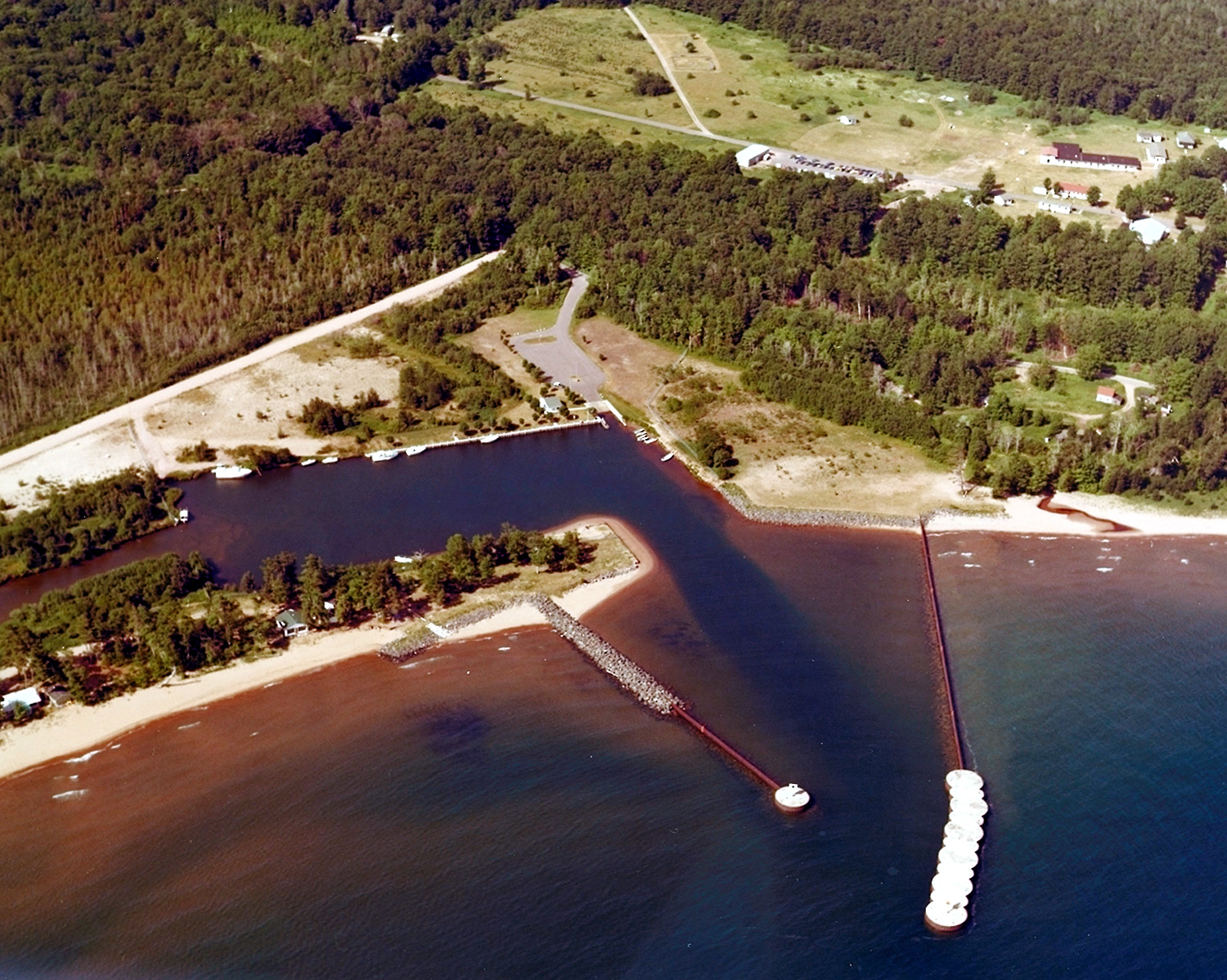 Aerial view of the harbor at Big Bay, Michigan on Lake Superior in Marquette County, Michigan, USA.